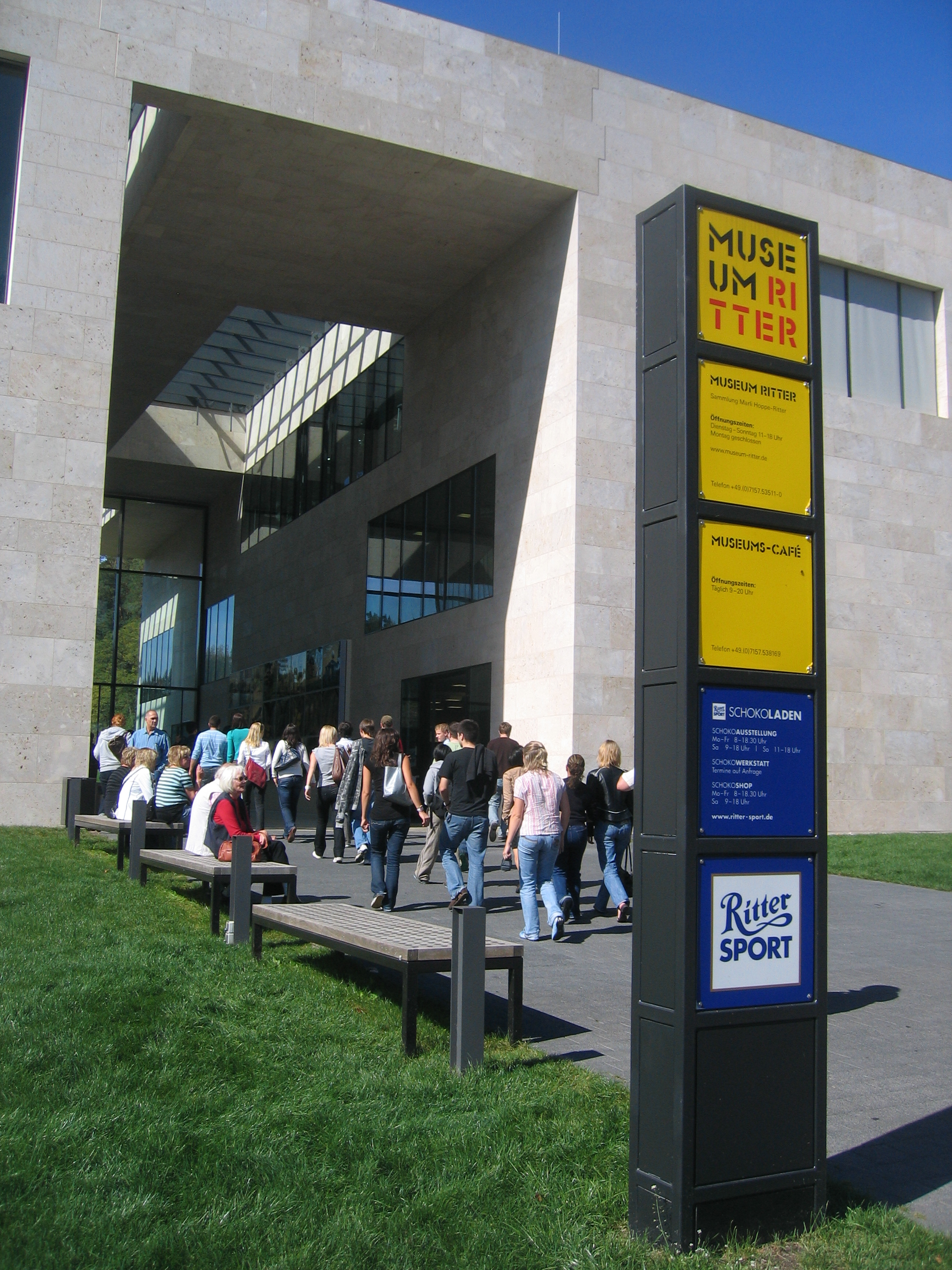 Museum next to Ritter Sport factory.